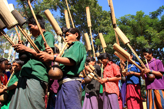 If the Mru live top of the hill, no modern culture but they have a rich culture named COW KILLING. Every year after collecting paddy from the hill they arrange a big festival where they bought a cow from nearest villagers or their own. They dancing, singing & also playing fluit games all day till night. After that they kill the cow and enjoy theirselves.